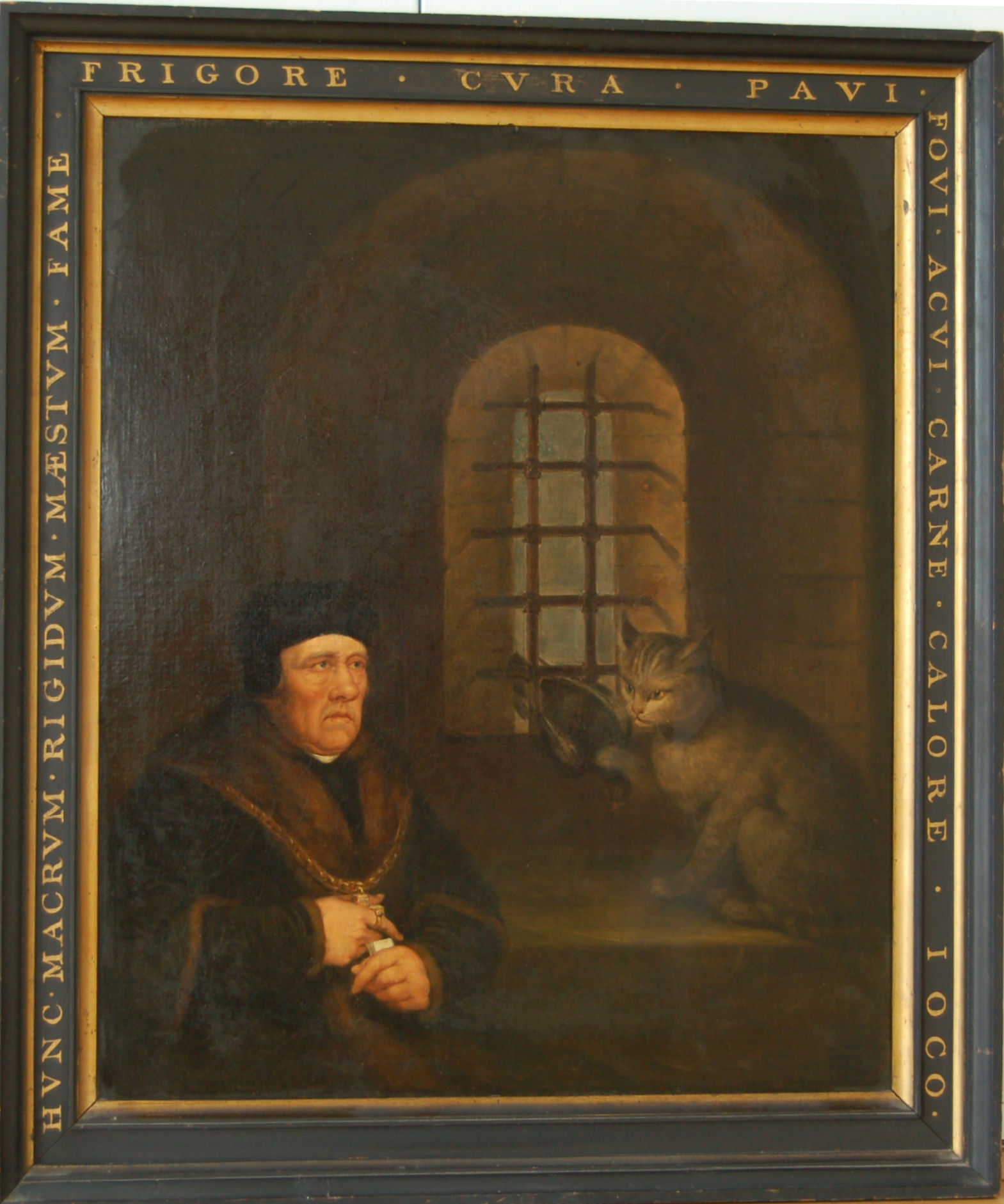 Portrait of Sir Henry Wyatt with cat and pigeon